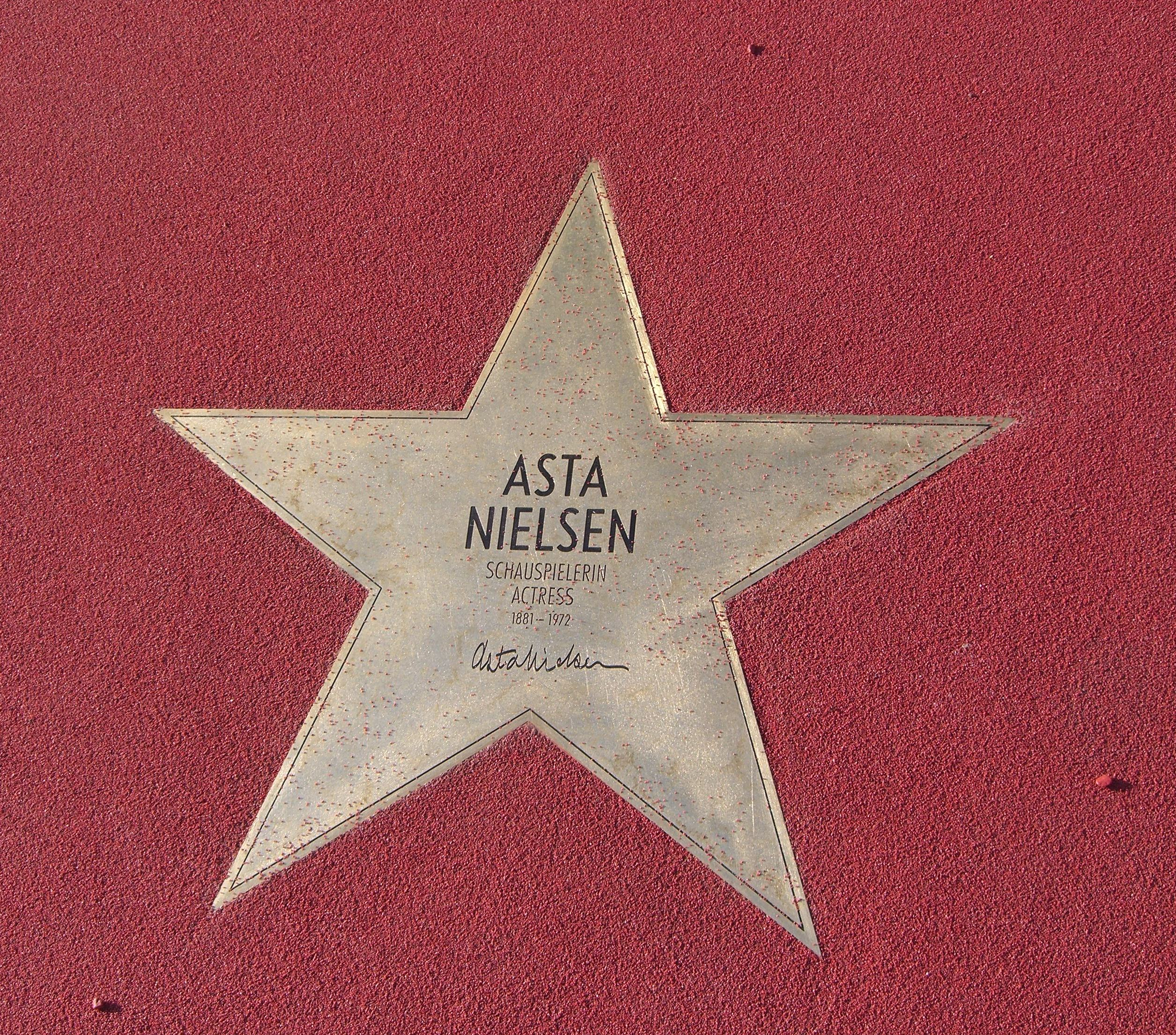 Star of Asta Nielsen at "Boulevard der Stars" in Berlin.